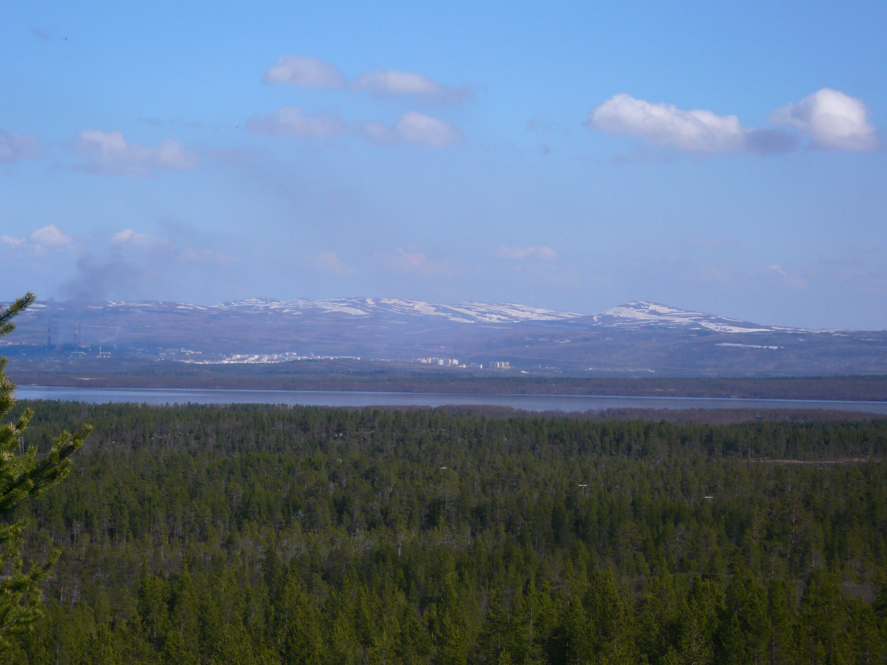 Utsikt mot Nikel, Russland, fra høyde 96.